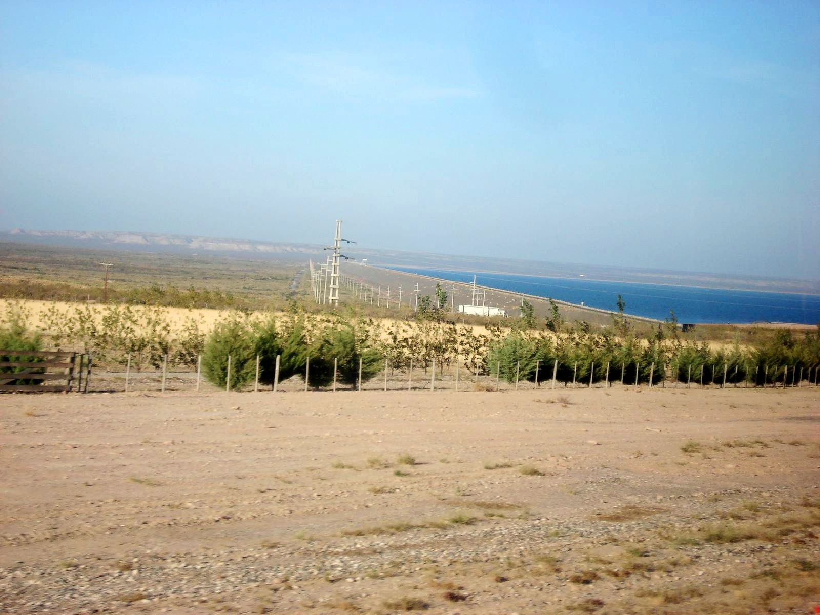 Dam of Casa de Piedra in Colorado river, Argentina.